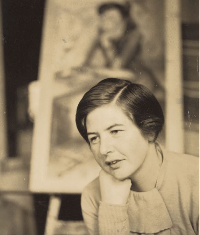 Moya Dyring